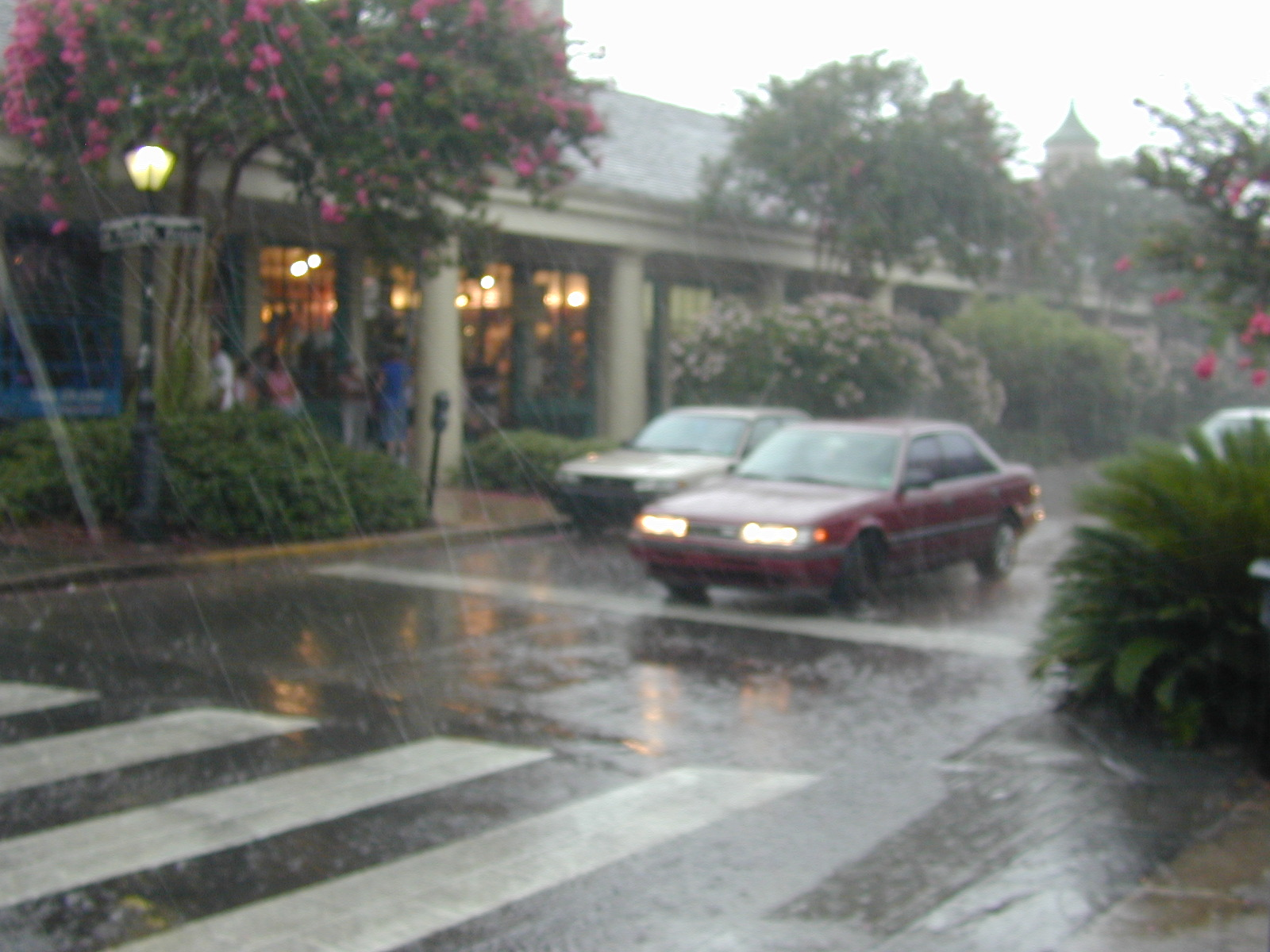 French Market, New Orleans, under a heavy thunder shower. Picture taken july 2004 by Jan Kronsell